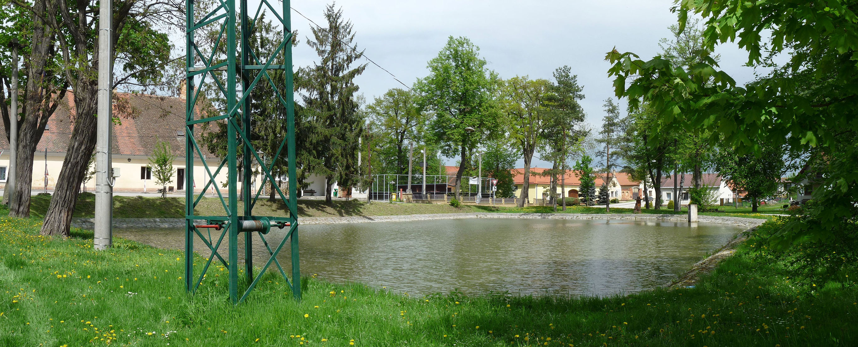 Pond in the village of Čejkovice, České Budějovice District, Czech Republic